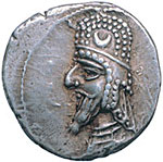 Persis, Darayan II., 1. Jh. v. Chr., Drachme